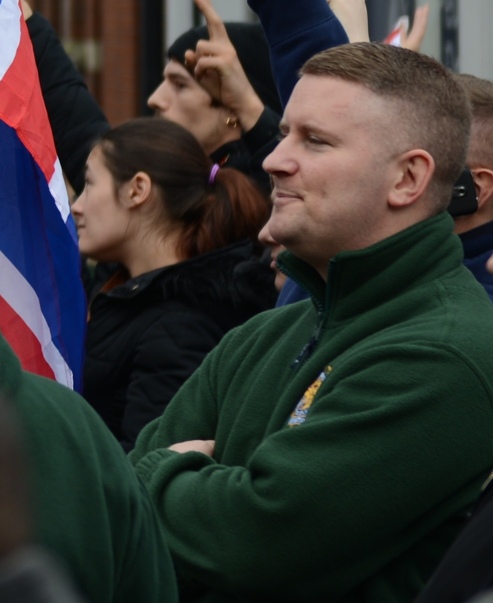 Paul Golding at a Britain First rally